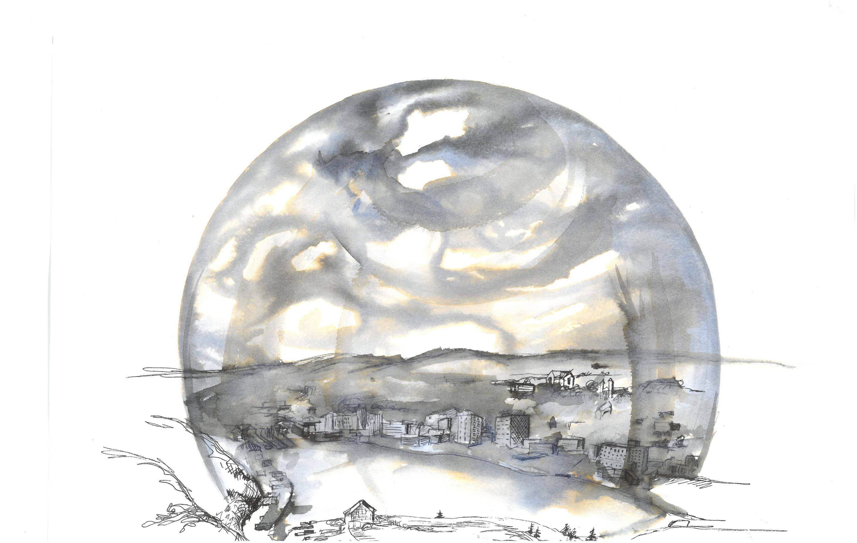 Philippa Jones, illustration of the Newfound Bubble exhibited at Eastern Edge Art Gallery